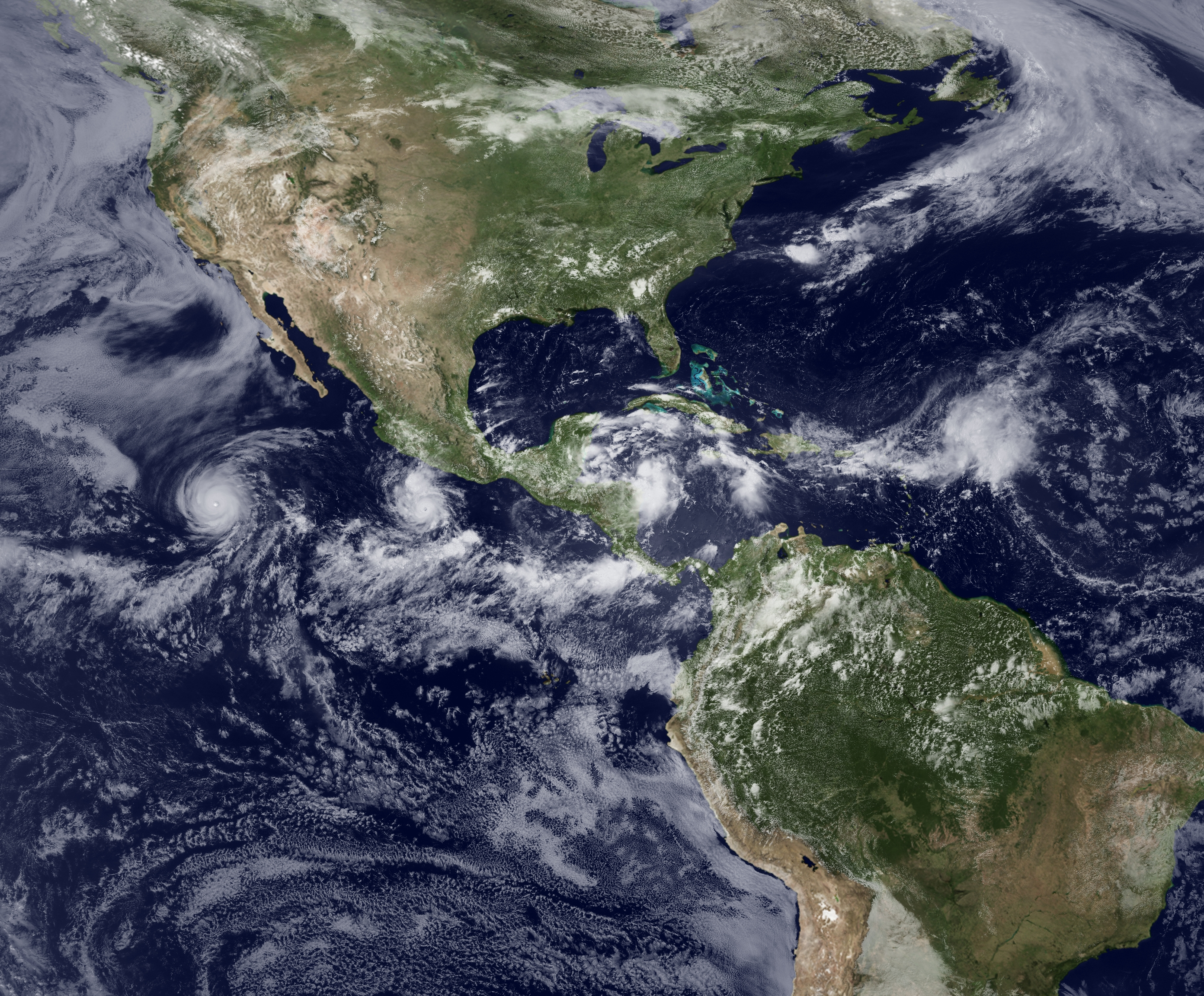 This image shows a very active Inter Tropical Convergence Zone from the full disk visible channel scan of GOES-13. From west to east we see major Hurricane Celia heading west in the Pacific, major Hurricane Darby south of Mexico along the same latitude as Celia, a strengthening tropical disturbance in the Caribbean Sea and a tropical wave just east of the northern Leeward Islands.